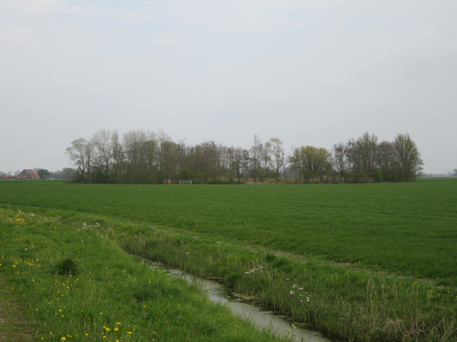 Nature reserve "Dobbe Stienser Aldlân", east of village Stiens, county Friesland, The Netherlands